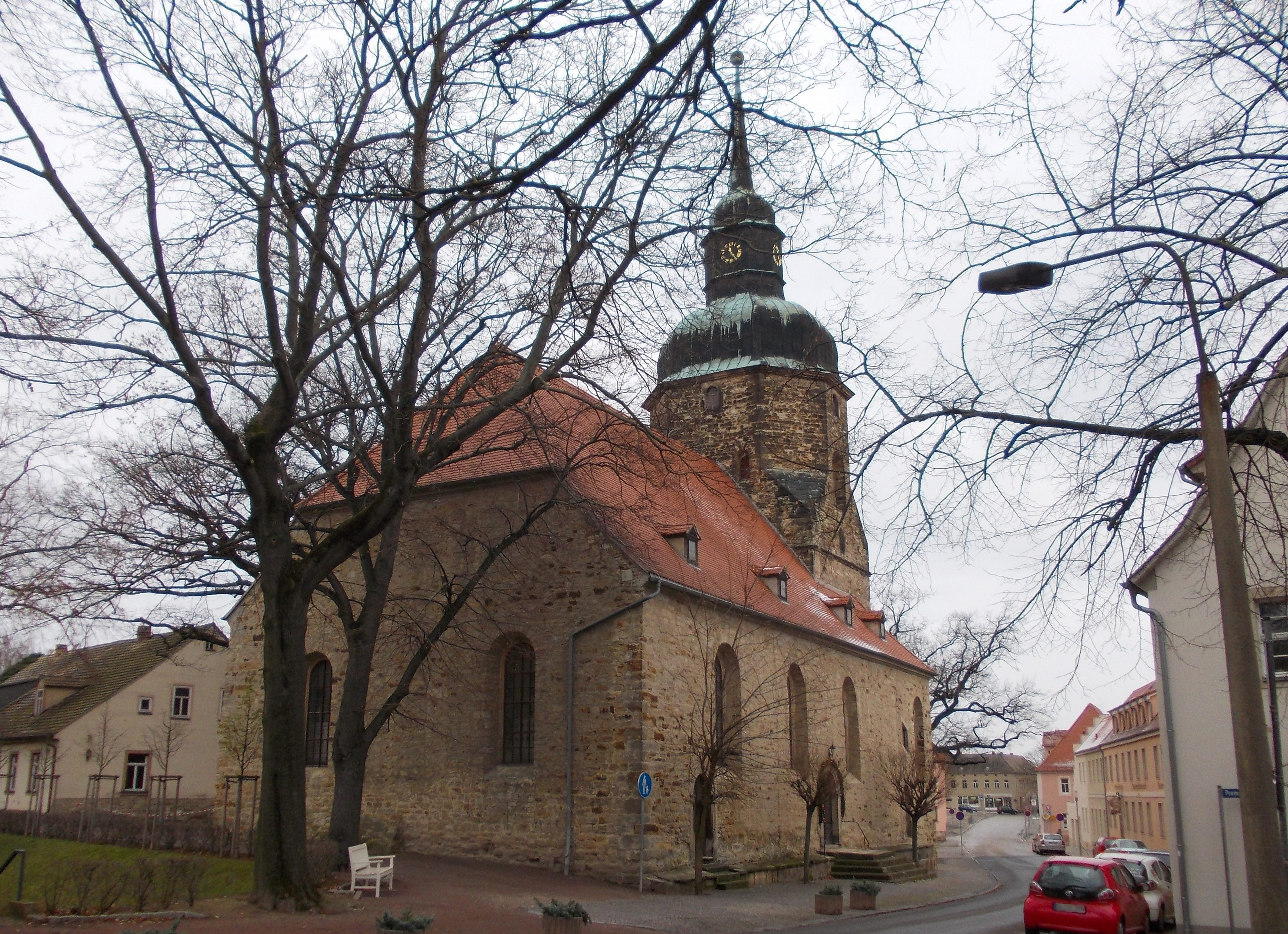 Parish church of the town of Bad Lauchstädt (Saalekreis, Saxony-Anhalt)